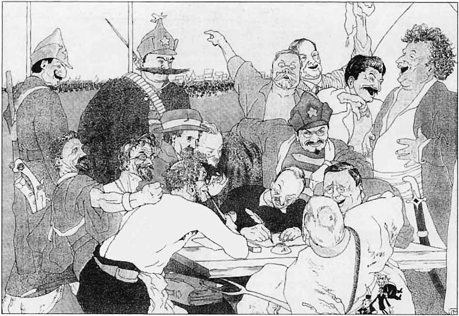 Soviet leaders write the letter of defiance to George Curzon. Depicted: Semyon Budyonny, Alexei Rykov, Sergey Kamenev, Mikhail Kalinin, Karl Radek, Leonid Krasin, Nikolai Bukharin, Lev Kamenev, Georgy Chicherin, Leon Trotsky, Christian Rakovsky, Demyan Bedny, Maxim Litvinov, Joseph Stalin, Grigory Zinoviev. Based on The Reply of the Zaporozhian Cossacks by Ilya Repin.